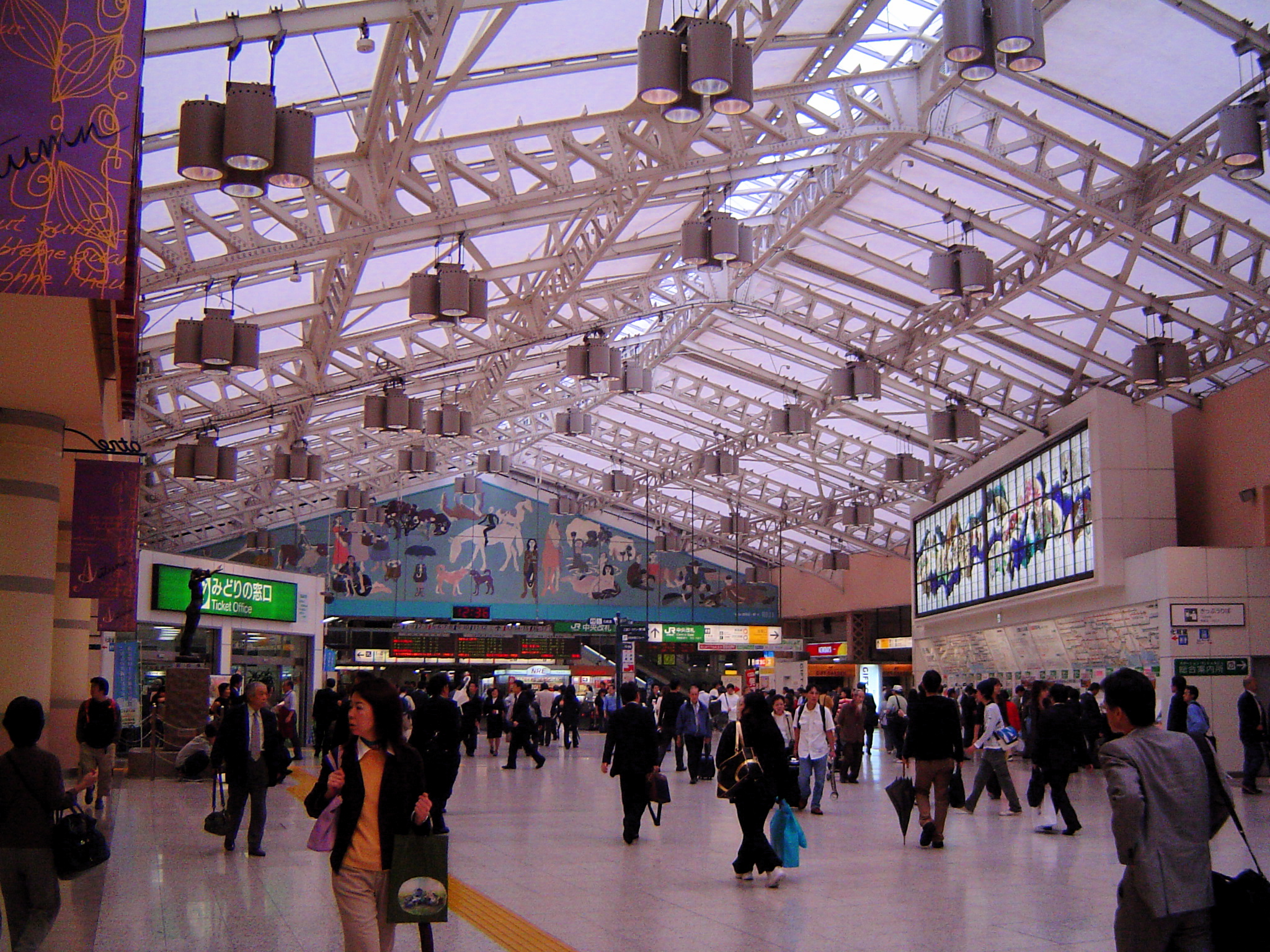 Ueno railway station, Tokyo, Japan